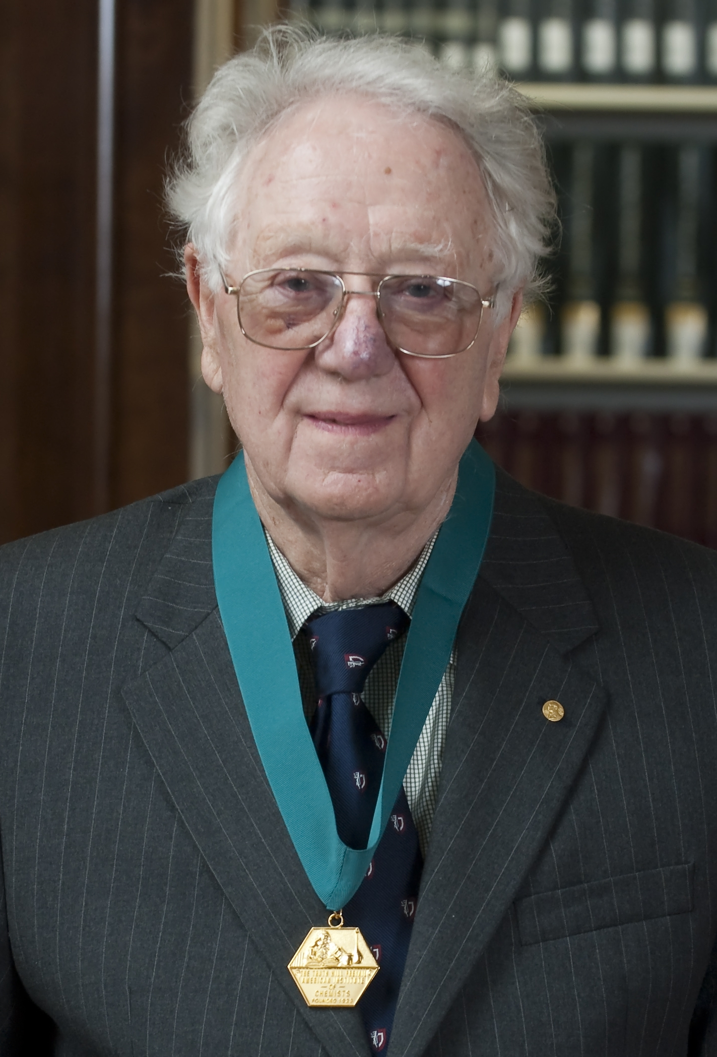 Photograph of Oliver Smithies, with the American Institute of Chemists Gold Medal, awarded 14 May 2009, at the Chemical Heritage Foundation.